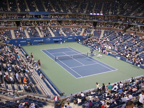 court Arthur Ashe Fleashing Meadows